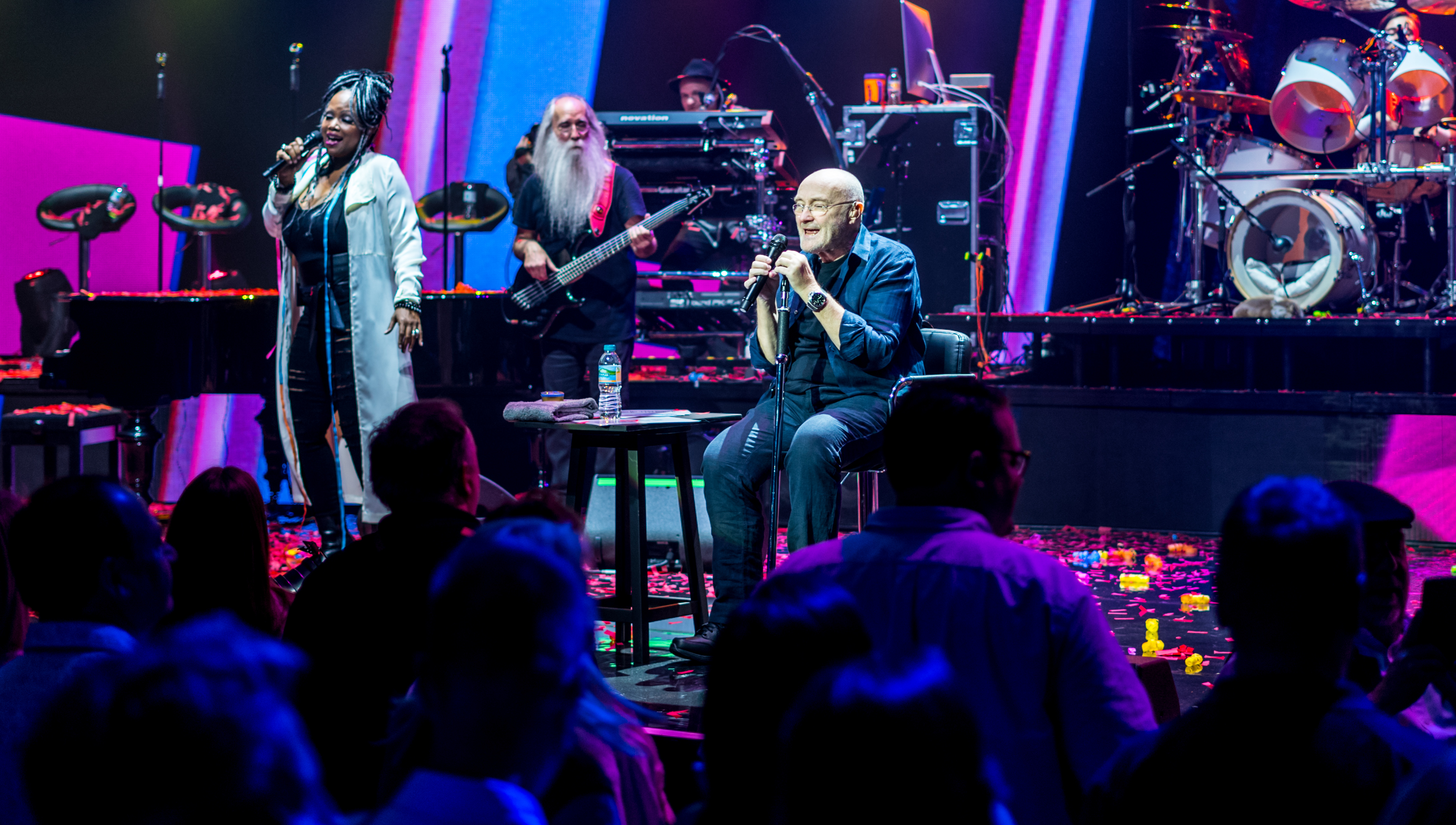 PhilCollinsRAH070617-25